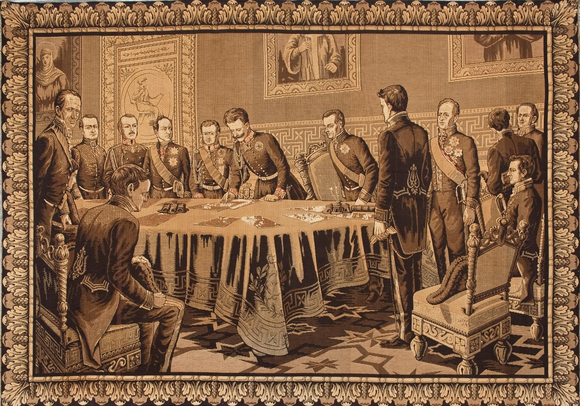 Charles Albert, King of Sardinia signing the Statute (1848).